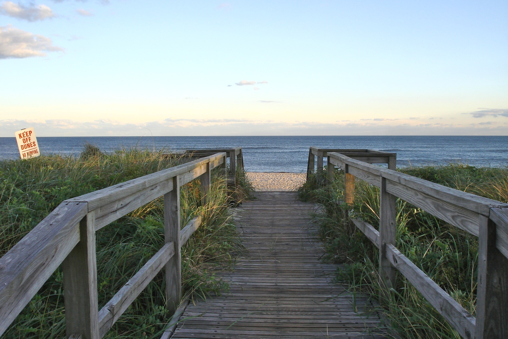 Lonelyville Beach at Sunset. September,2007